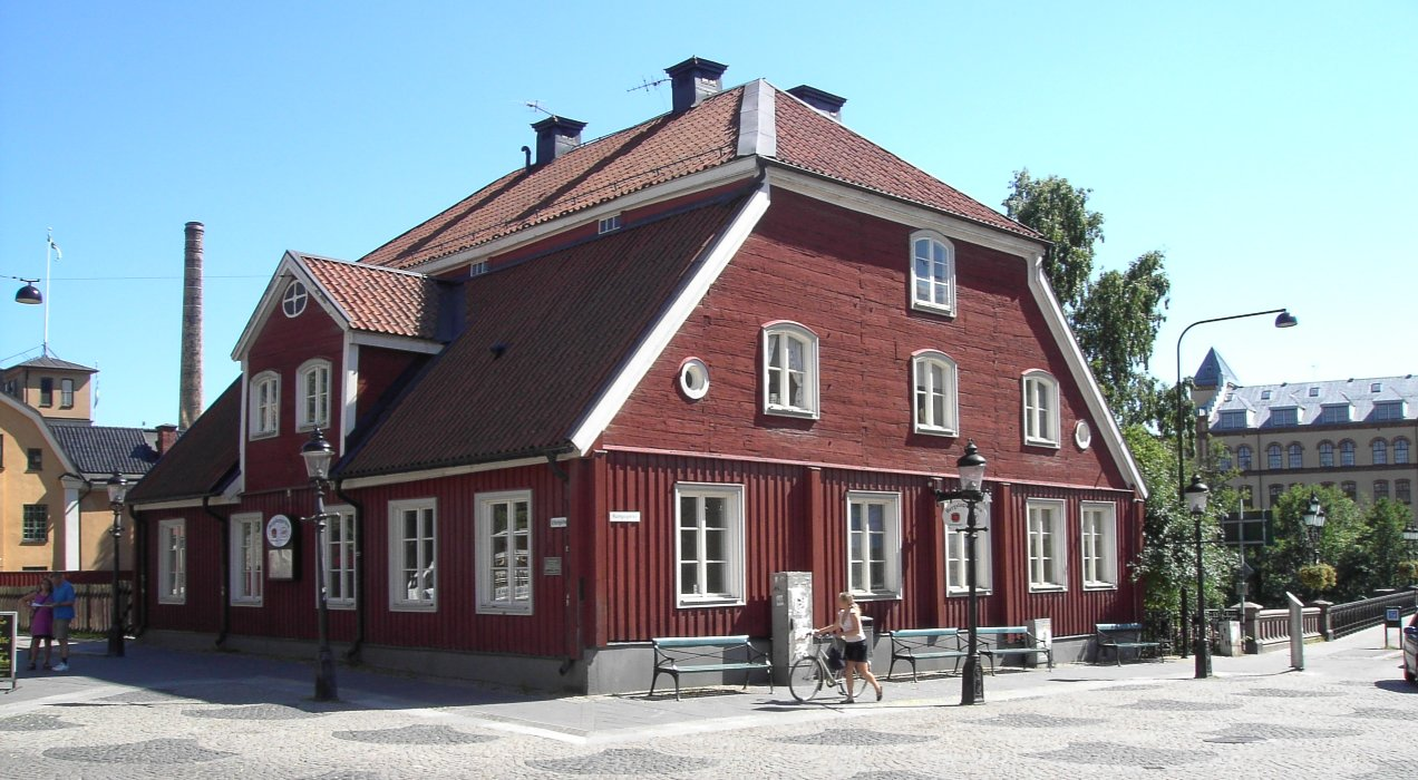 The Bergslag cottage at the Bergslag square in Norrköping was built around 1750. A dye mill had its business here 1795-1935.